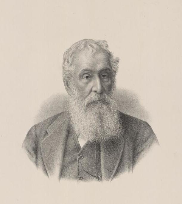 A portrait from the Welsh Portrait Collection at the National Library of Wales. Depicted person: William Watkin Edward Wynne – Welsh politician